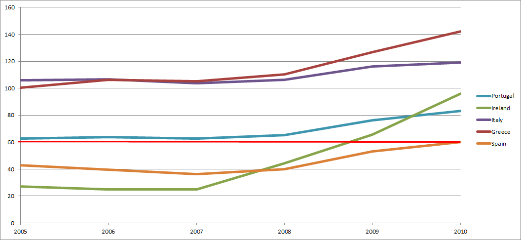 Public debt of PIIGS countries for the years 2005-10